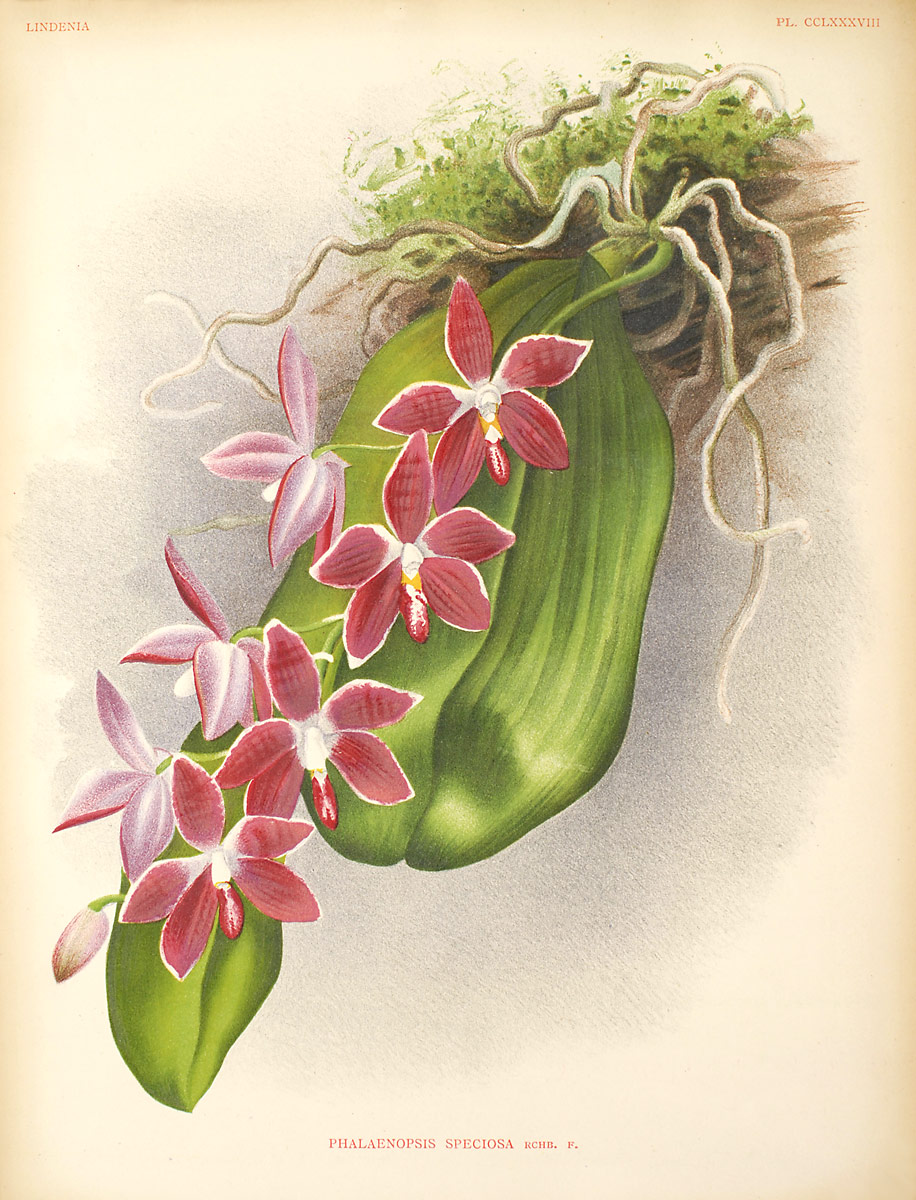 Phalaenopsis speciosa